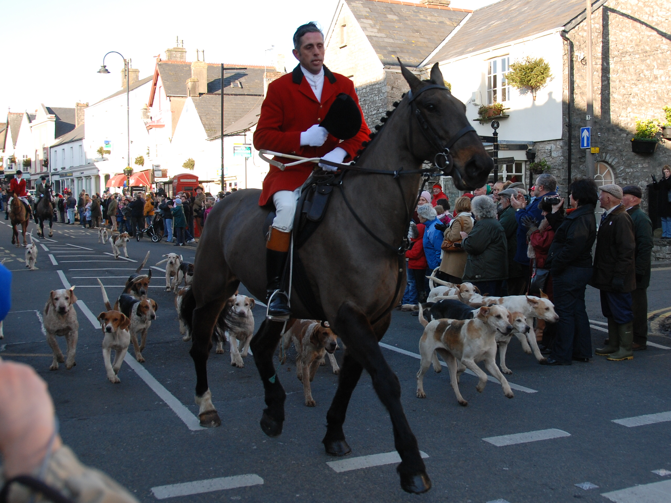 Cowbridge, Wales